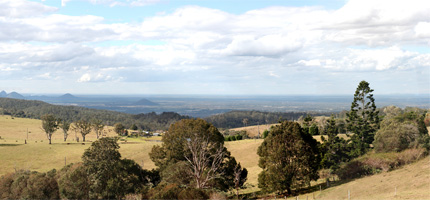 A cropped version of Image:Glasshouse Mountains Panorama.jpg